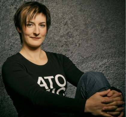 Austrian alpine skier Kathrin Zettel